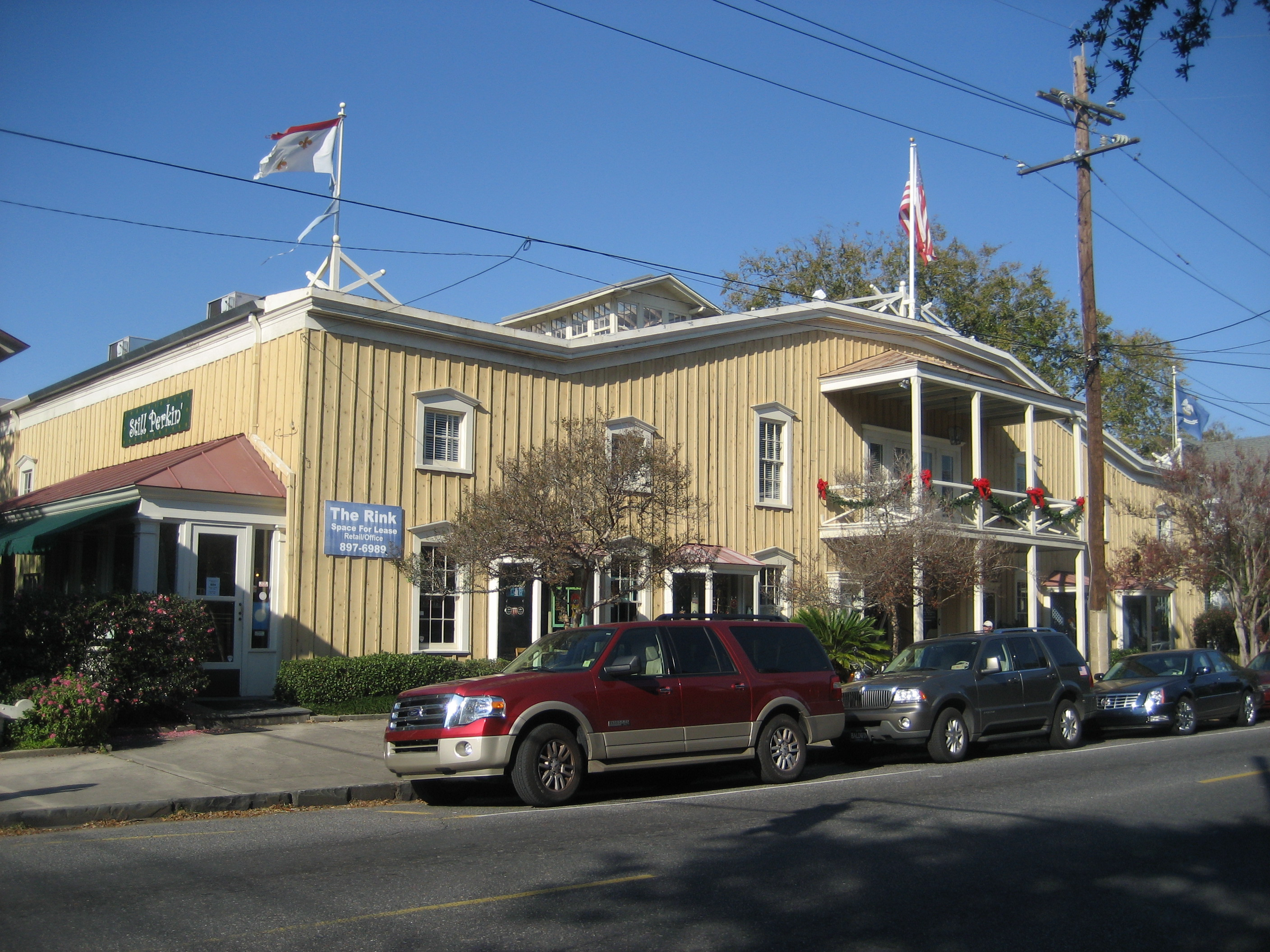 "Garden District" of Uptown New Orleans. "The Rink", a building on Prytania Street, a century old skating rink now a small shopping mall.